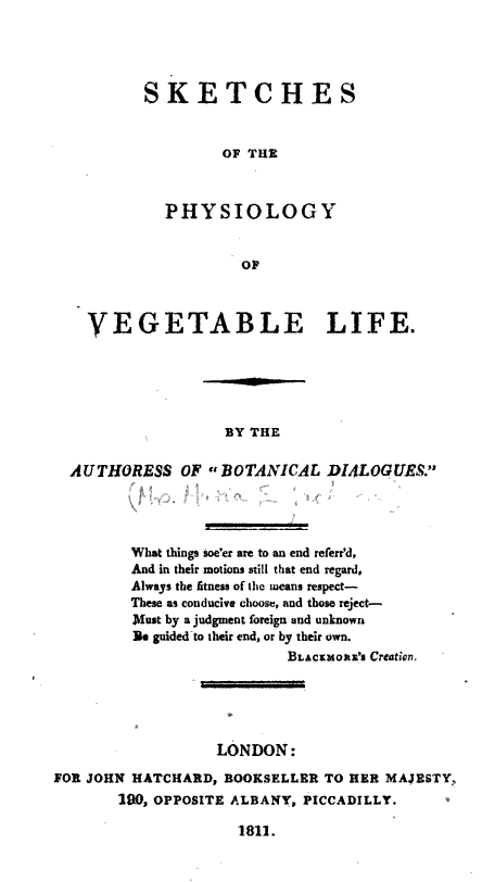 Title Page of Sketches of the Physiology of Vegetable Life, 1811. Maria Jacson